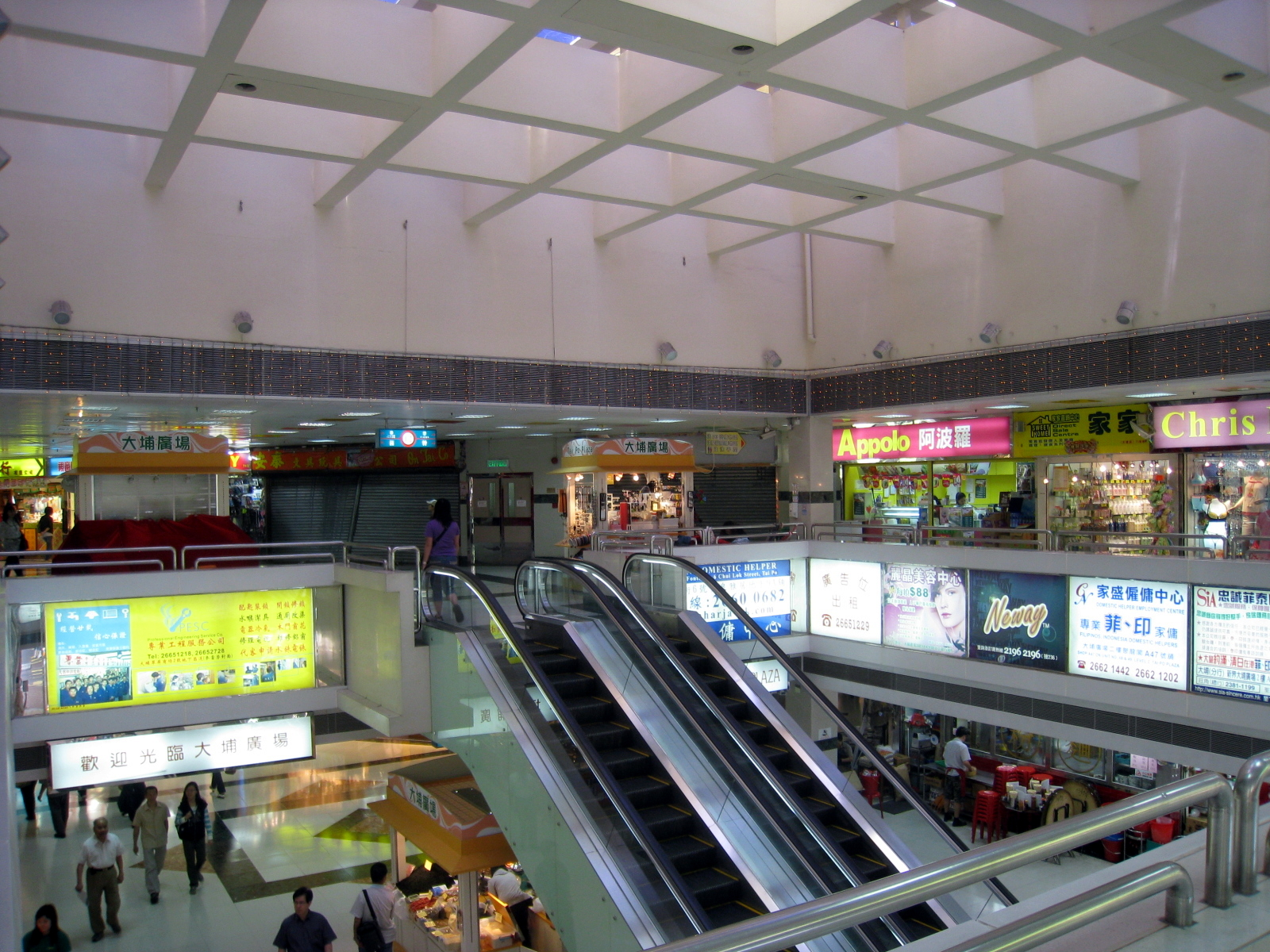 Interior of Tai Po Plaza